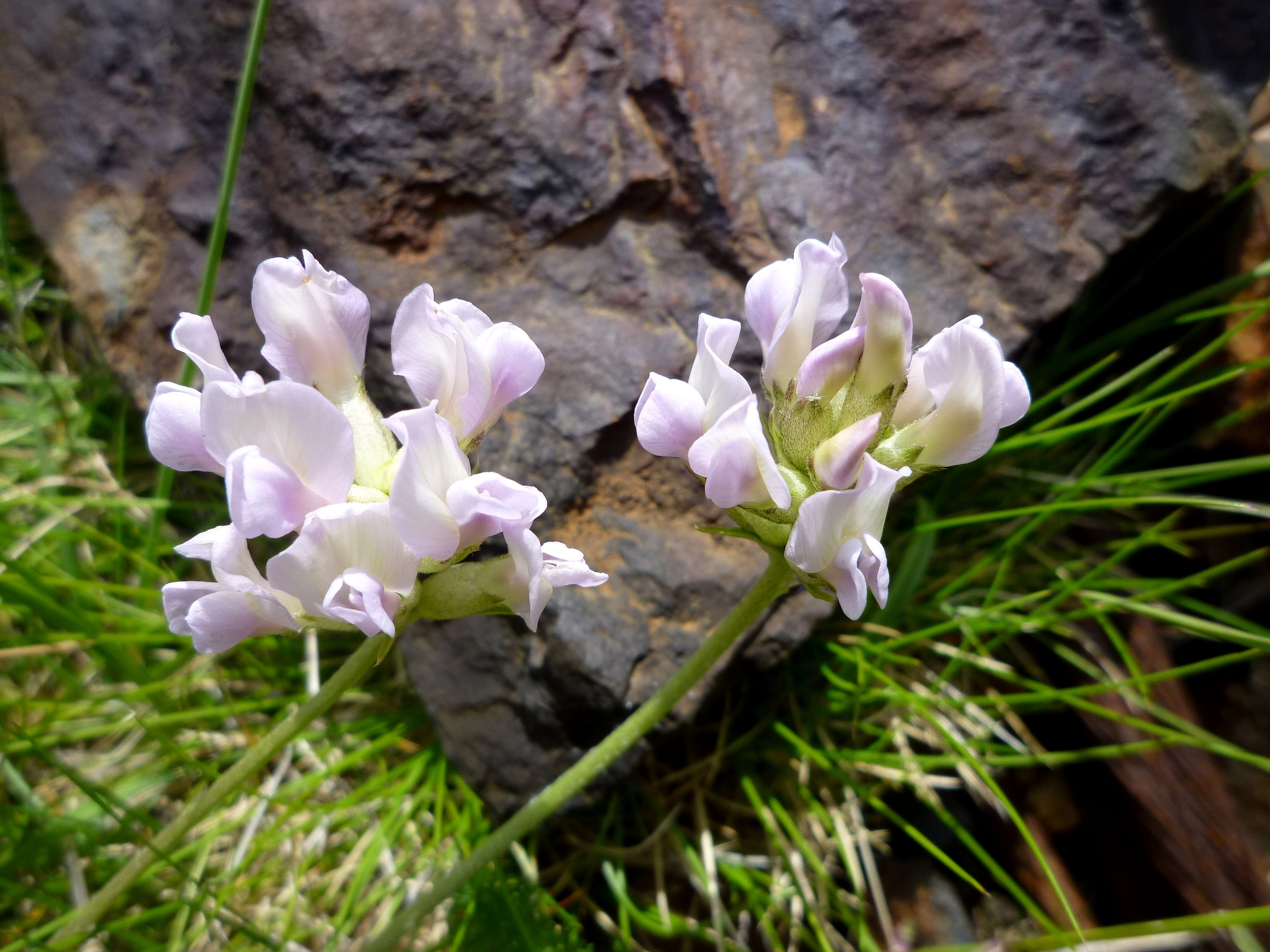 Astragalus australis. In Cabdella (Pallars Jussà - Catalunya. To 2.250 m altitude